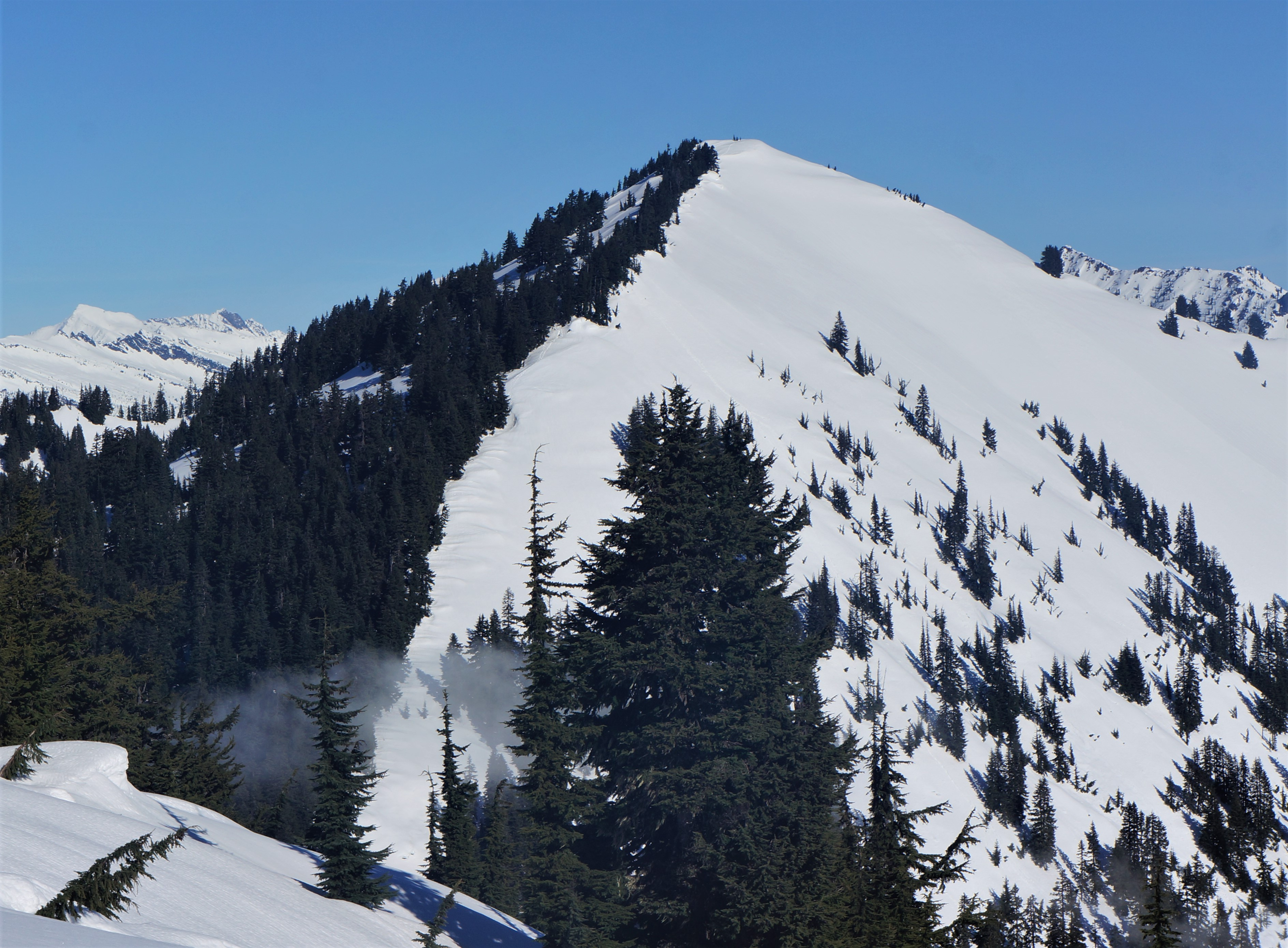 Jove Peak from Union Peak